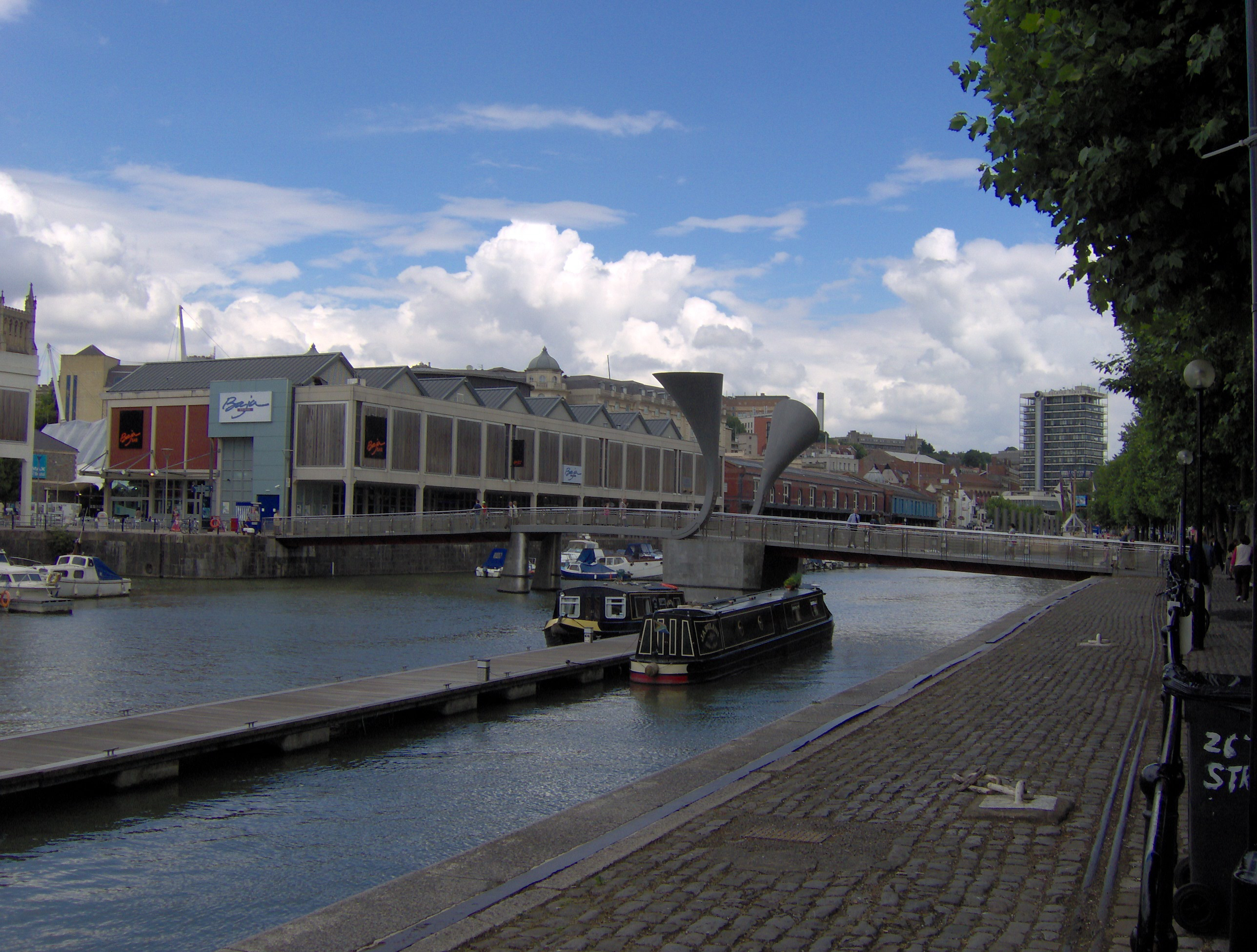 The Watershed and Pero's Bridge in Bristol.